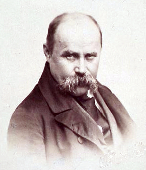 Taras Shevchenko, 1814 – 1861